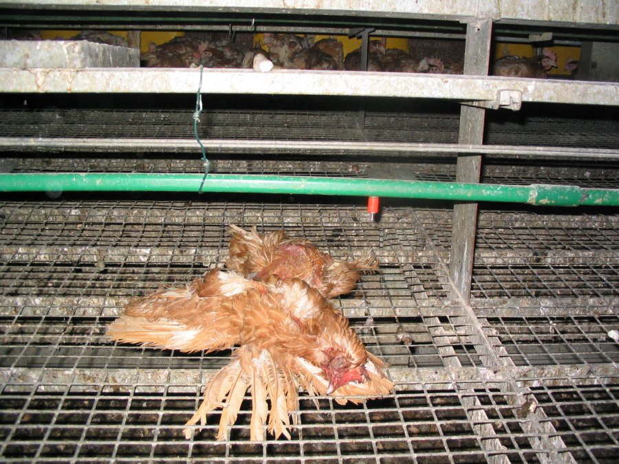 dead chickens in a deep-litter system